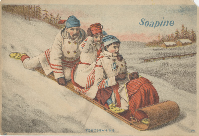 Persistent URL: Subject (TGM): Family; Families; Sleds & sleighs; Winter; Winter sports; Toboggans; Household soap; Cosmetics & soap; Chemical industry; Keywords: Soapine